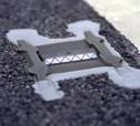 snowplowable raised pavement marker